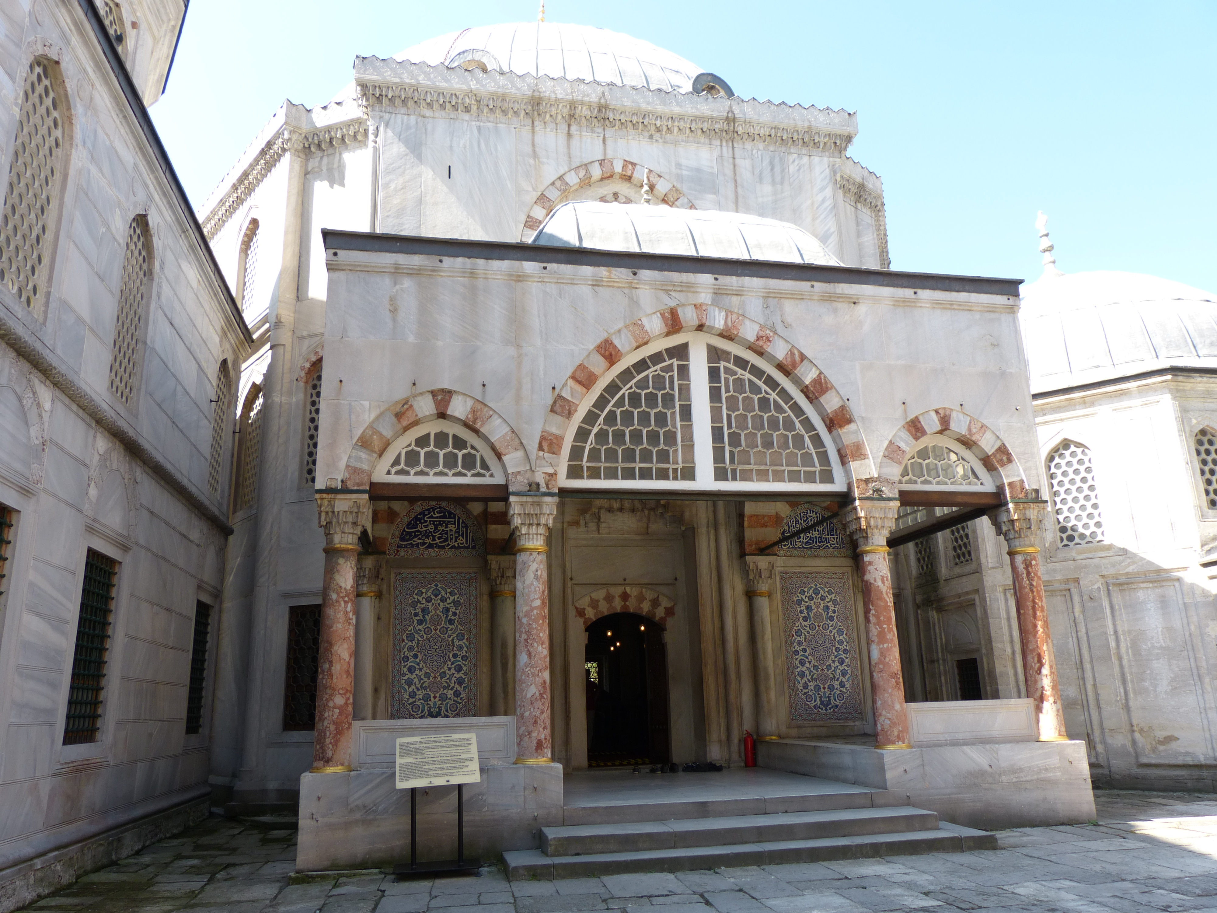 Türbe (Tomb) of Sultan Murad III